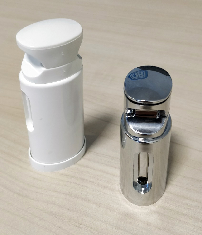 Ready-for-use wall brackets or fittings for bathroom radiators, white and chrome ABS plastic.